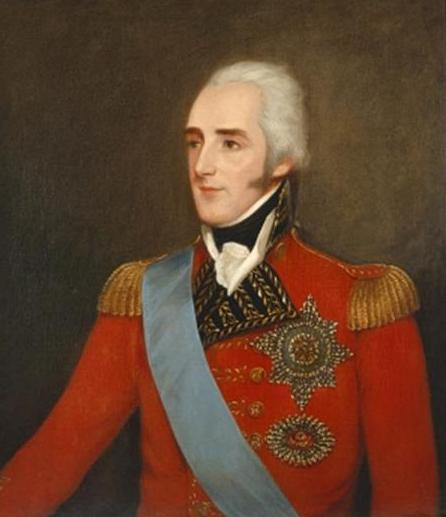 Richard Colley, Earl of Mornington (1760-1842), afterwards Marquess Wellesley, Governor General of India (1798-1805). Wearing a military uniform with the blue ribbon and Star of the Order of St Patrick.